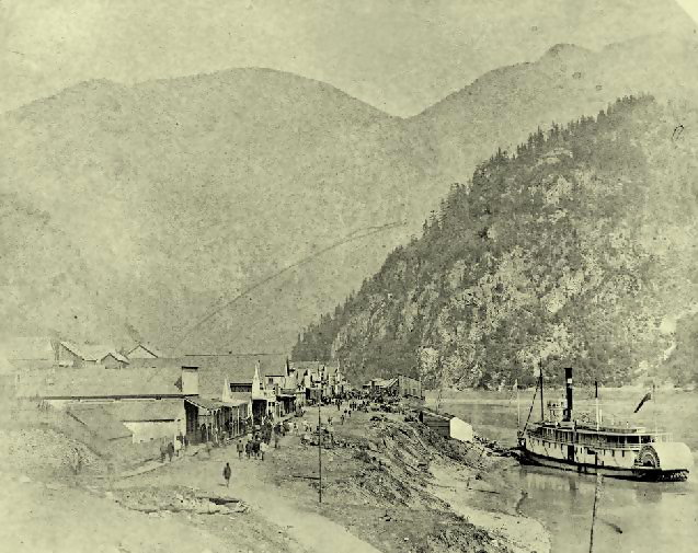 Front Street, Yale, British Columbia c. 1882 during the construction of the Canadian Pacific Railway. British Columbia Archives Catalogue Number HP009730